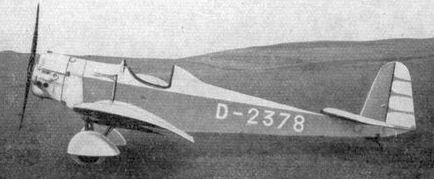 DKW Erla Me 5a photo from L'Aerophile September 1933